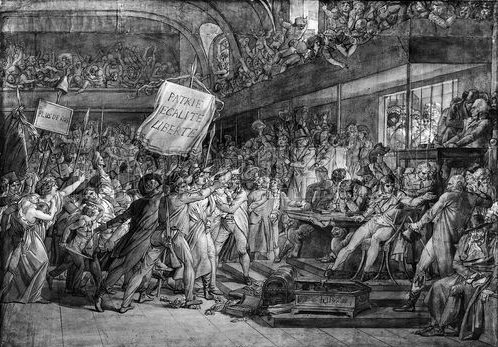 The insurgents enter Assembly.